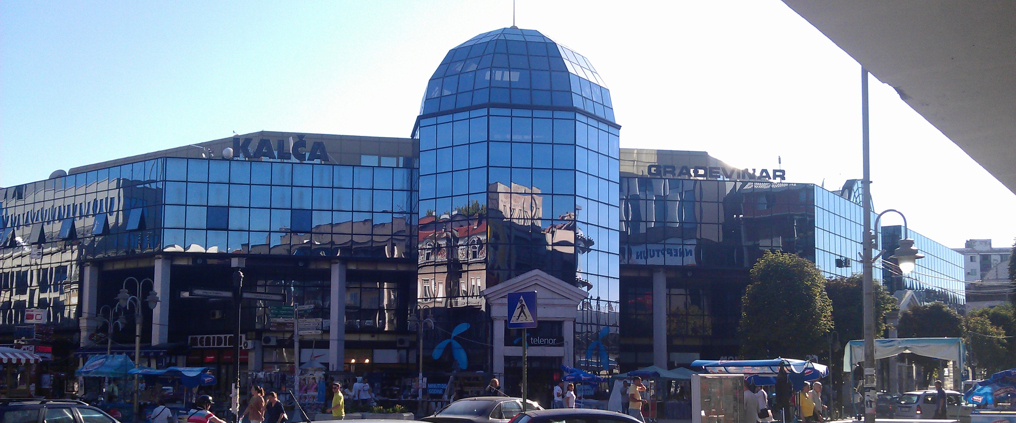 Bussines center Kalca in center of city Nis